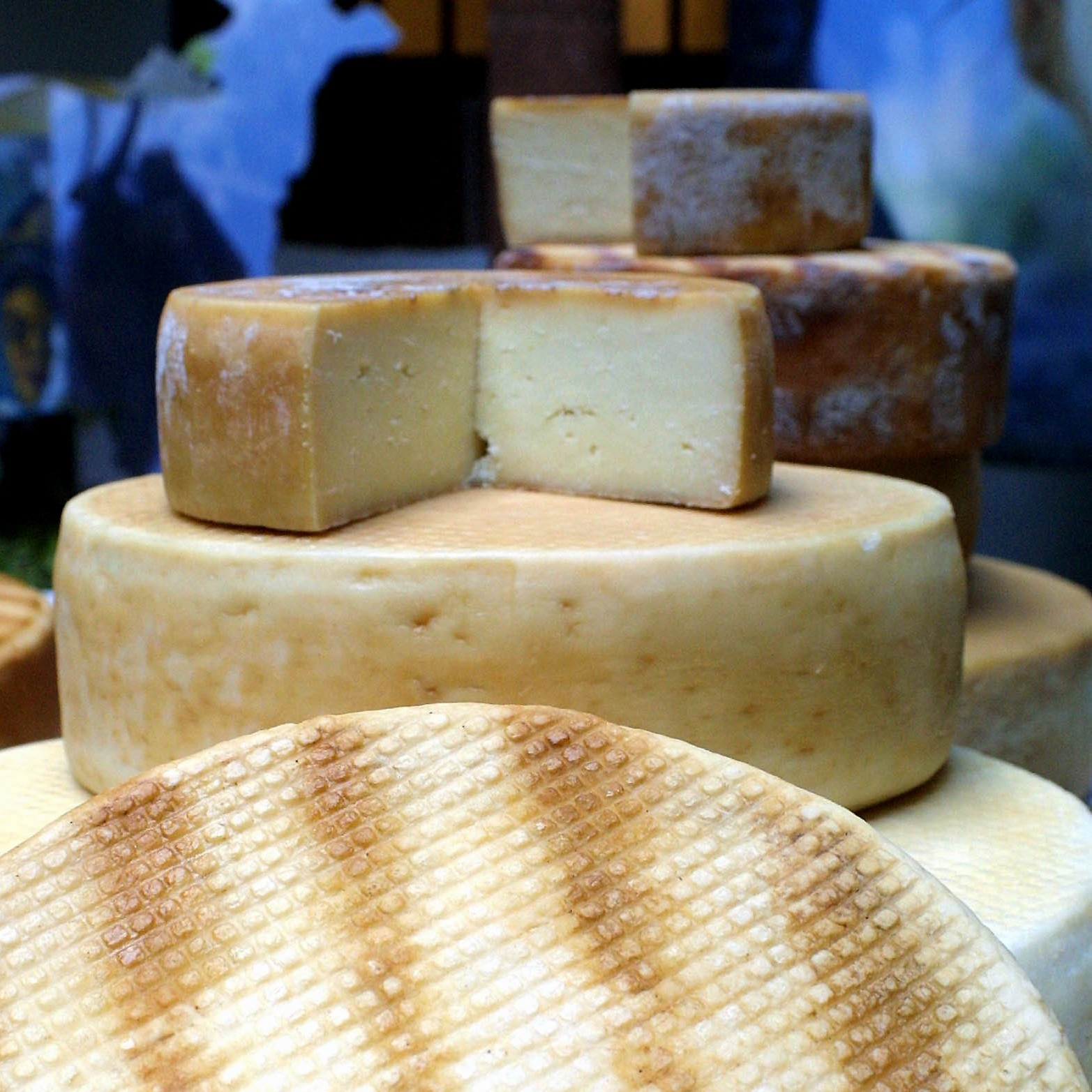 Palmero cheese.